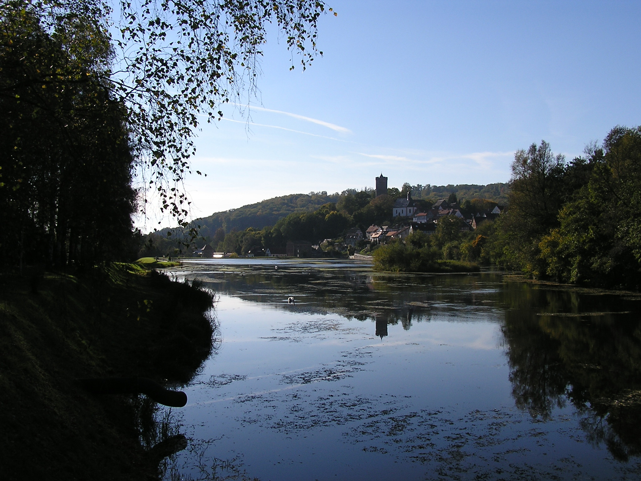 Hydroelectric plant “Lissberg” at the Nidder at Ortenberg in the Vogelsberg, Germany